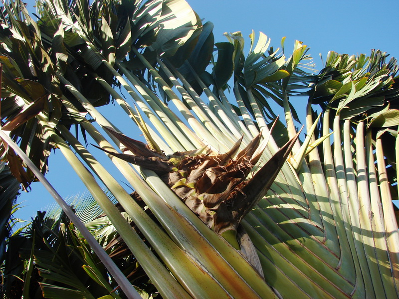 Picture of Phenakospermum guyannense, as seen from the ground.